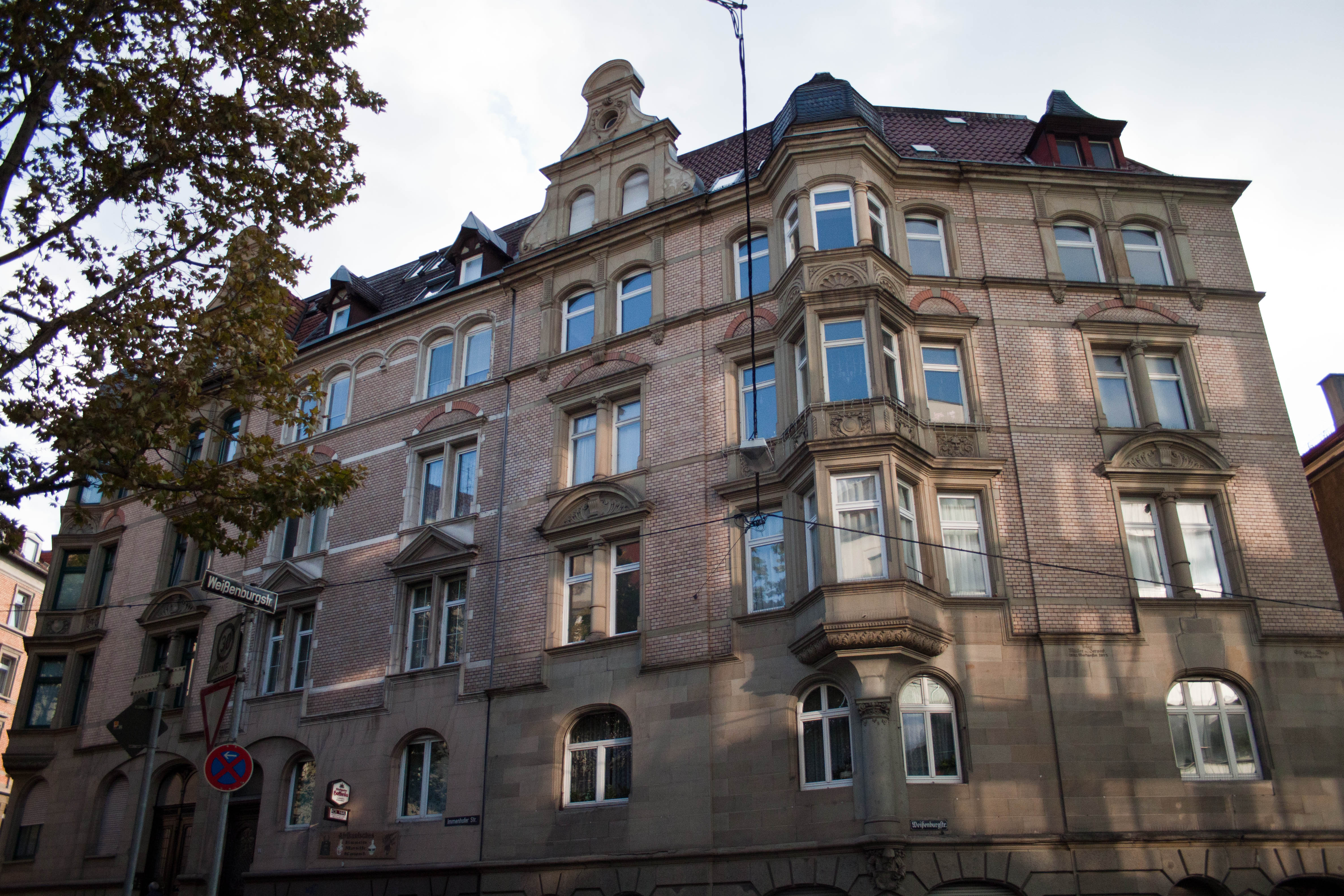 House Weissenburg street 2 B Stuttgart Germany